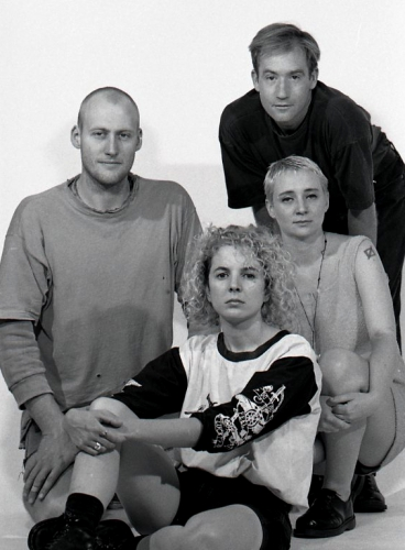 Bughouse 1990. Left to right Steve Campbell, Genevieve Maynard, Peter Brookes, Lea Cameron. Picture by Tony Mott